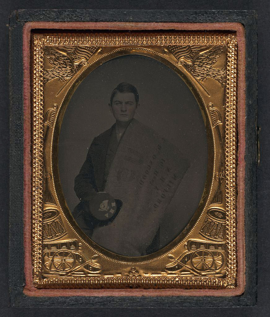 [Private Charles H. Osgood of Company C, 16th New Hampshire Infantry Regiment with stenciled blanket and forage cap] [between 1861 and 1865] 1 photograph : ninth-plate tintype, hand-colored ; 7.3 x 6.0 cm (case) Notes: Title devised by Library staff. Case: Leather quatrefoil scroll. Additional information in collections file. Gift; Tom Liljenquist; 2010; (DLC/PP-2010:105). Subjects: Osgood, Charles H.,--d. 1926. United States.--Army.--New Hampshire Infantry Regiment, 16th (1862-1863)--People. Soldiers--Union--1860-1870. Military uniforms--Union--1860-1870. Blankets--1860-1870. United States--History--Civil War, 1861-1865--Military personnel--Union. Format: Portrait photographs--1860-1870. Tintypes--Hand-colored--1860-1870. Repository: Library of Congress, Prints and Photographs Division, Washington, D.C. 20540 USA, Part Of: Ambrotype/Tintype filing series (Library of Congress) (DLC) 2010650518 Liljenquist Family collection (Library of Congress) (DLC) 2010650519 More information about this collection is available at Persistent URL: Call Number: AMB/TIN no. 2510